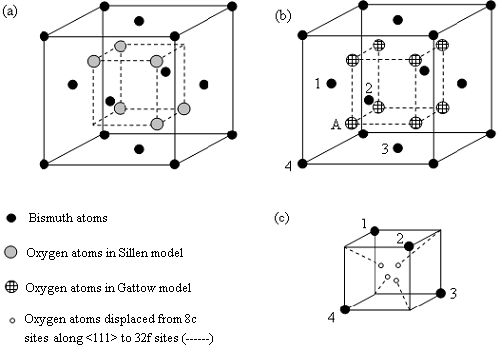 Models of the structure of bismuth oxide